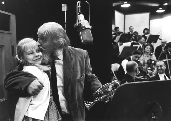 Laurence Naismith and 9 yr old Kathleen Cody having just finished recording "The Bugle" duet for the Grammy Award Winning Broadway Show Album, Meredith Wilson's "HERE'S LOVE".